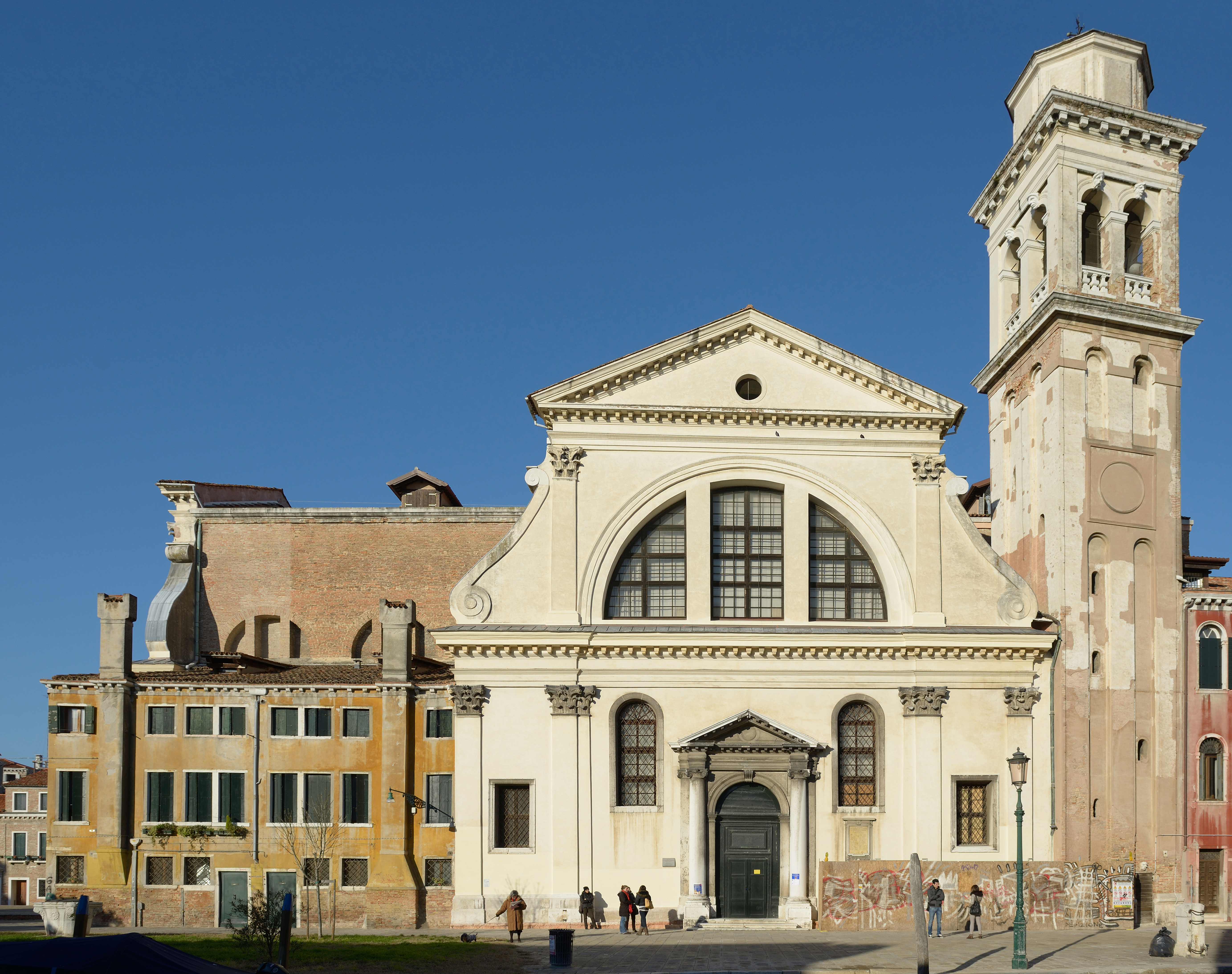 The church of San Trovaso in Venice